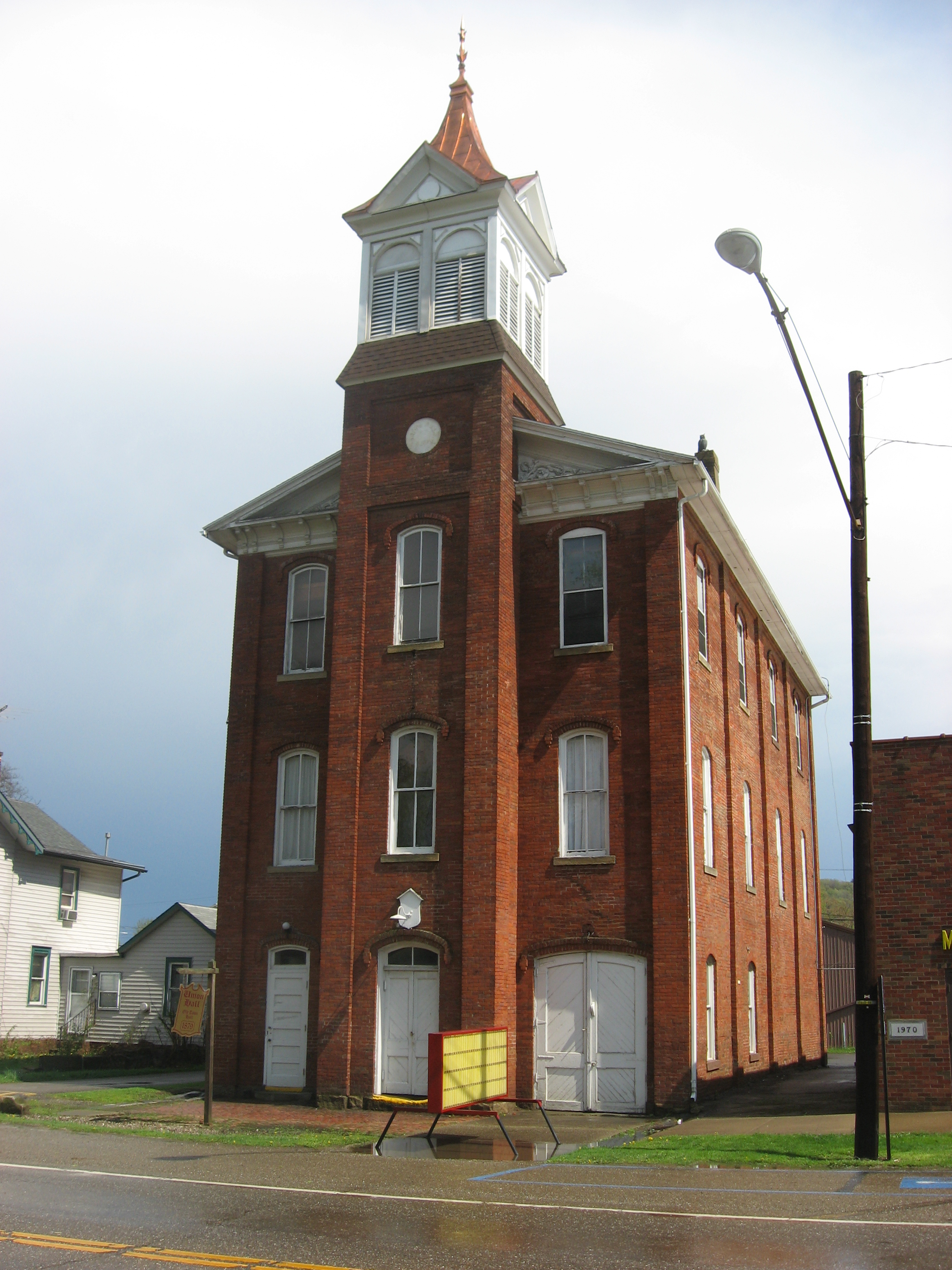 Front and western side of the Port Washington Town Hall, located on Main Street (U.S. Route 36) in downtown Port Washington, Ohio, United States. Built in 1878, it is listed on the National Register of Historic Places.